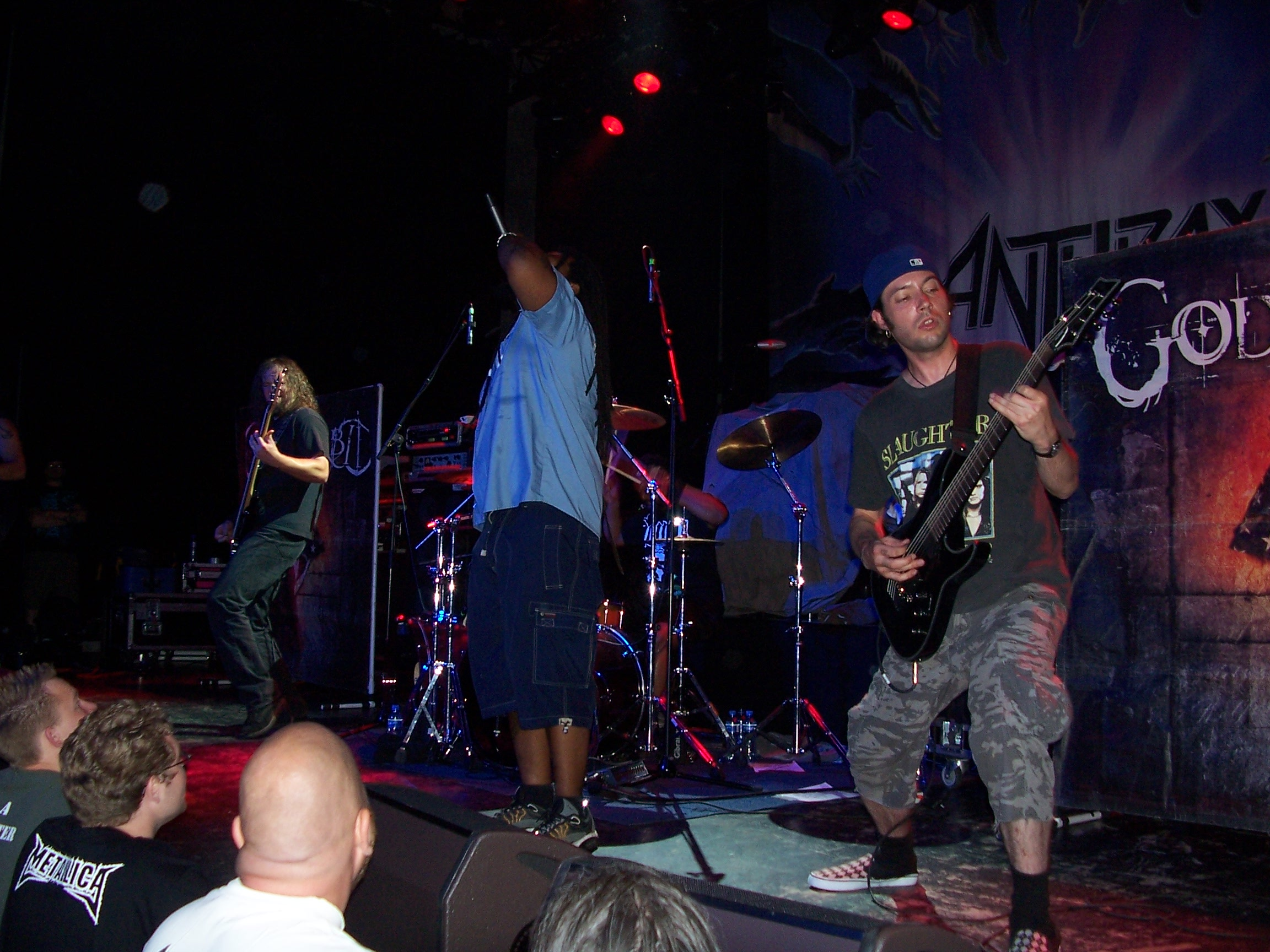 The metalcore band "God Forbid" performing in "Paard van Troje", The Hague, The Netherlands, 2009-06-30.